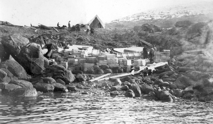 Photograph, Fur trade post under construction, Pangnirtung Fiord, NU, 1921, Frederick W. Berchem, September 1921, Silver salts - Gelatin silver process - 9.4 x 14.9 cm